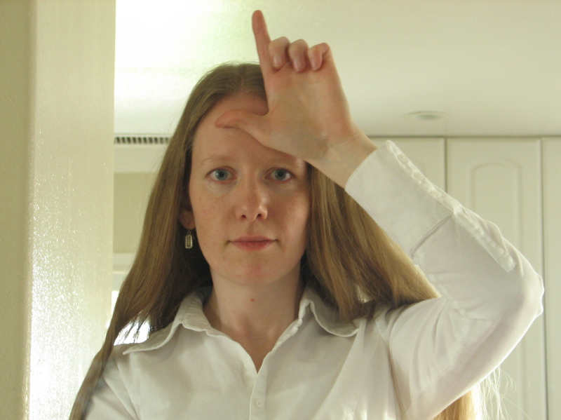 Woman doing the loser sign.